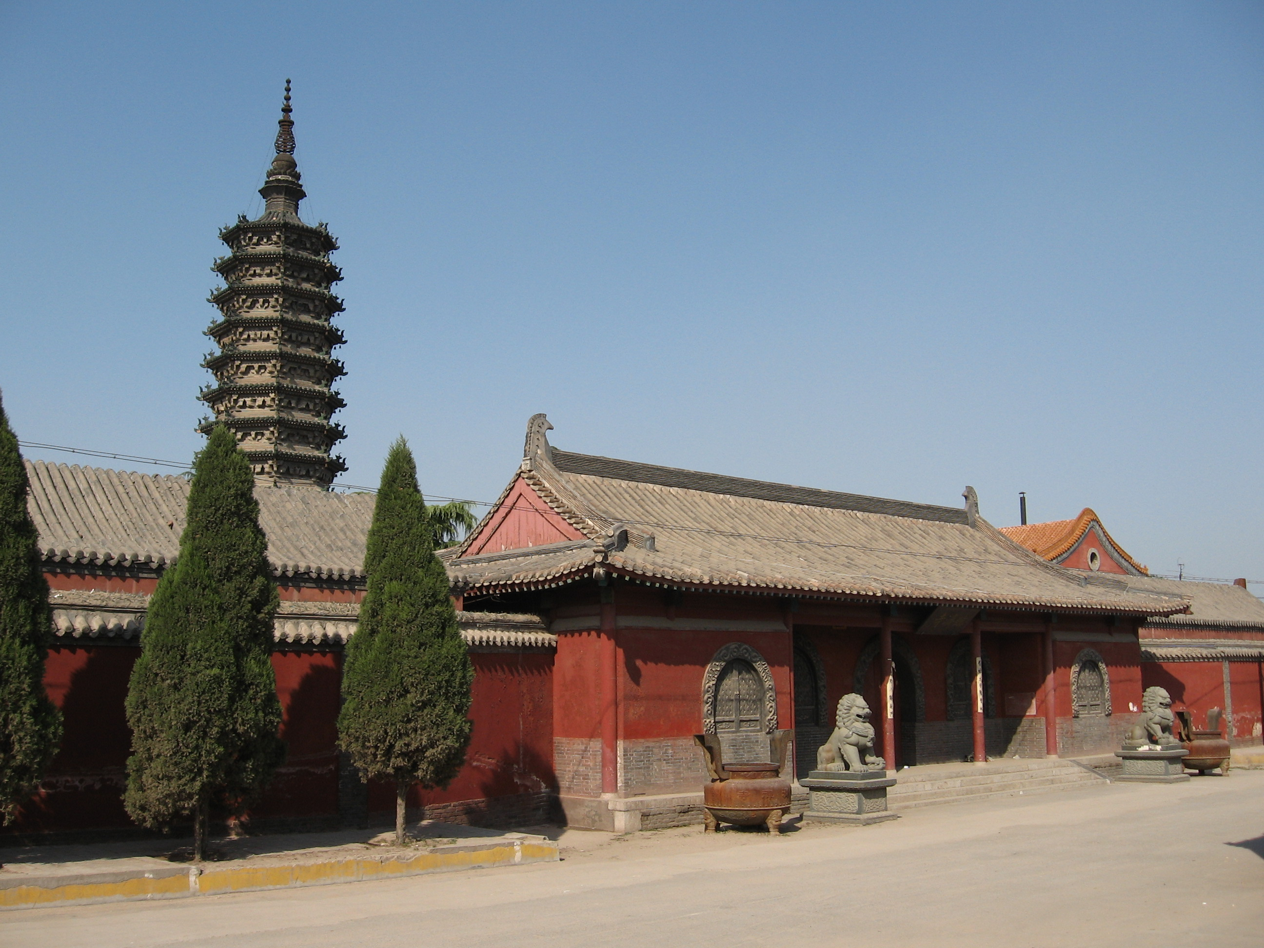 The gate of Linji monastery in Zhengding Hebei,China.